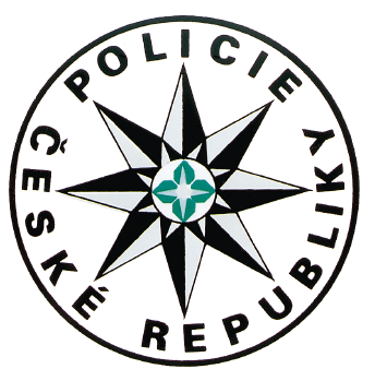 The Czech Police seal Česky: Znak Policie České republiky